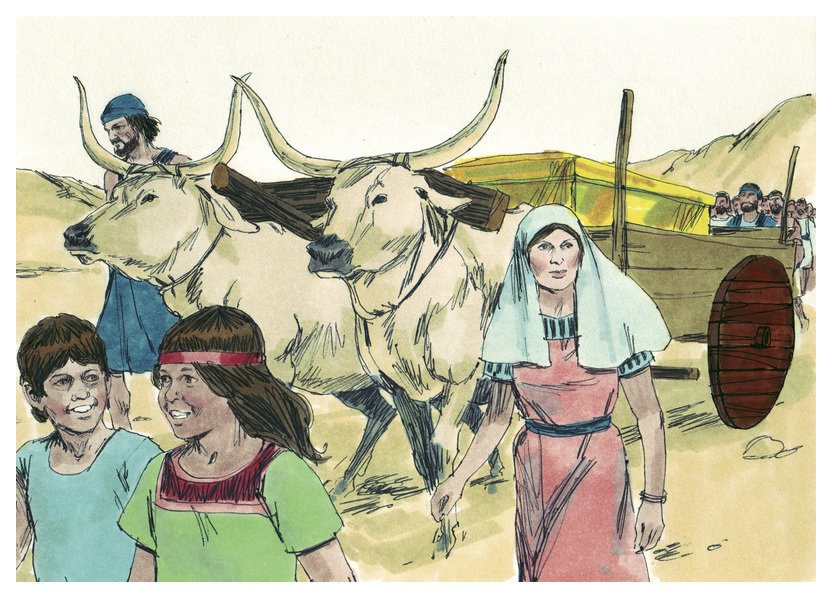 Biblical illustration of Book of Exodus Chapter 14